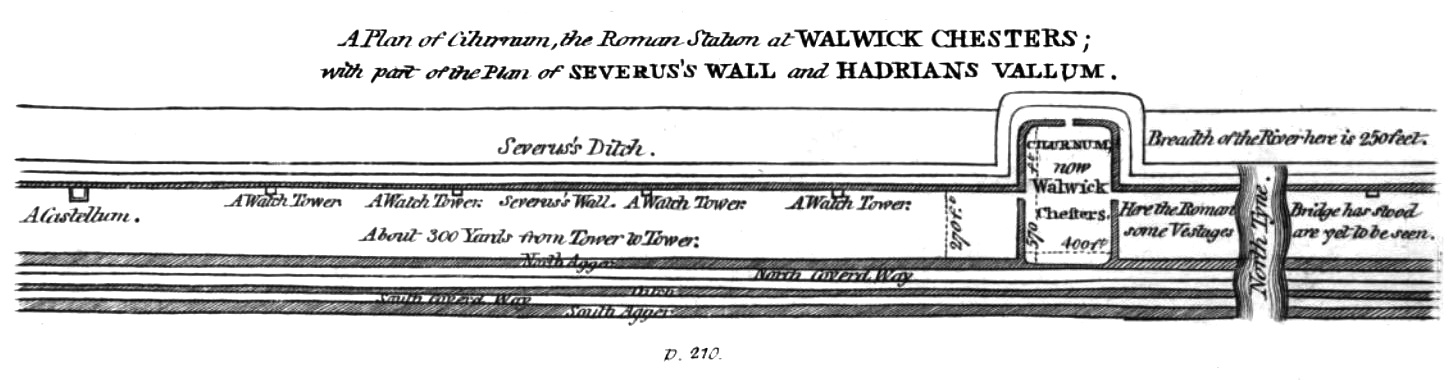 View at Walwick Chesters. Plate from page 210 of The History of the Roman Wall by William Hutton. Printed by John Nichols and Son, London, 1802.